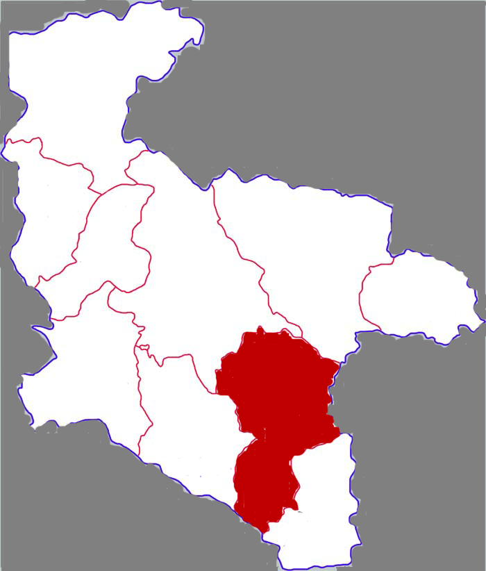 Location of Pingli county in Ankang city, China